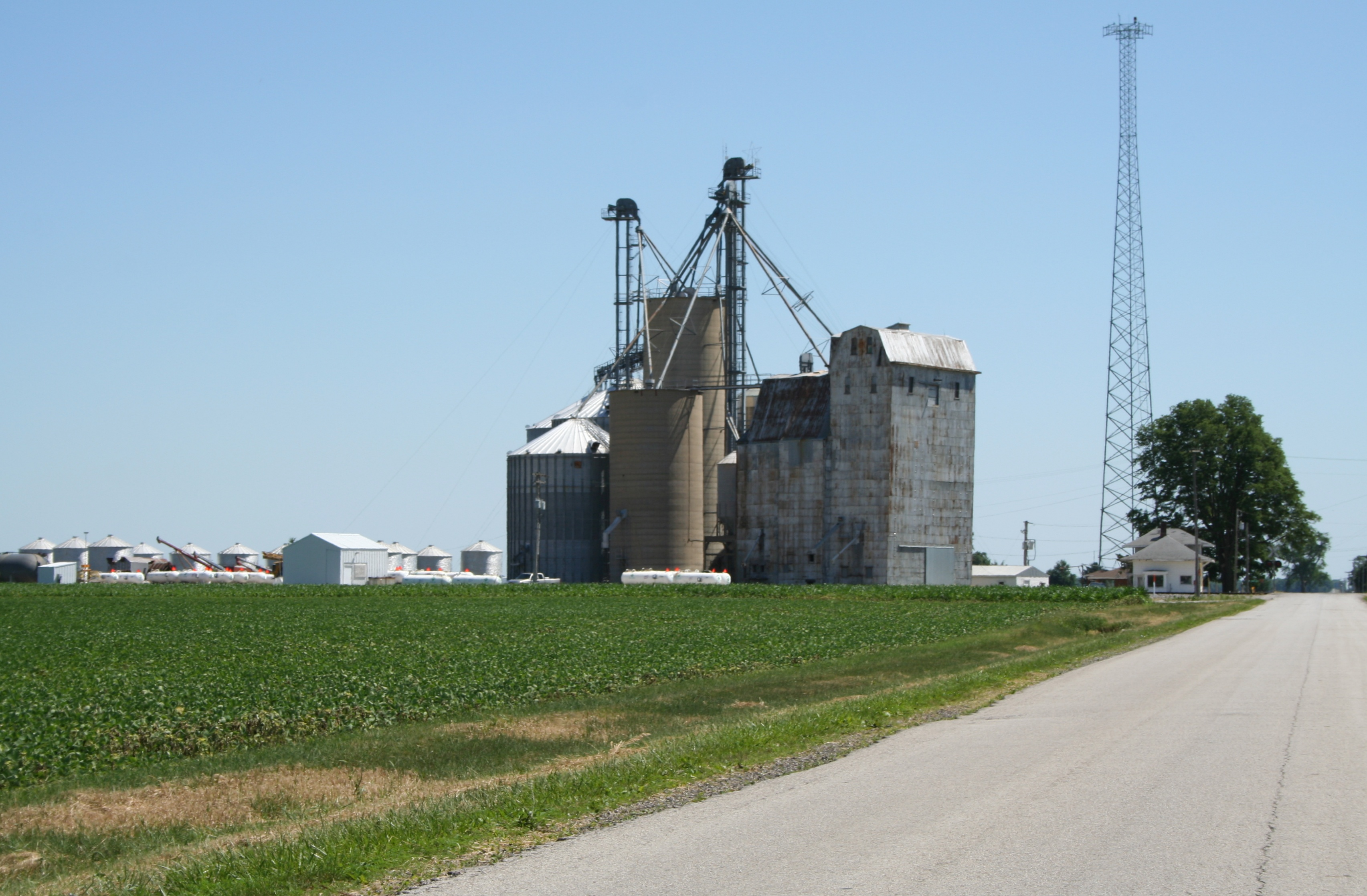 Rising Farmers Grain Company, 3412 N. Rising Road, Champaign, IL 61822-9514